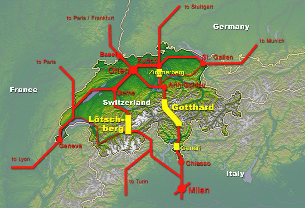 Overview of the New Railway Link through the Alps NRLA / Alptransit project in Switzerland with all planned base tunnels and connections to the European rail network (yellow: base tunnels, red: existing main rail links)